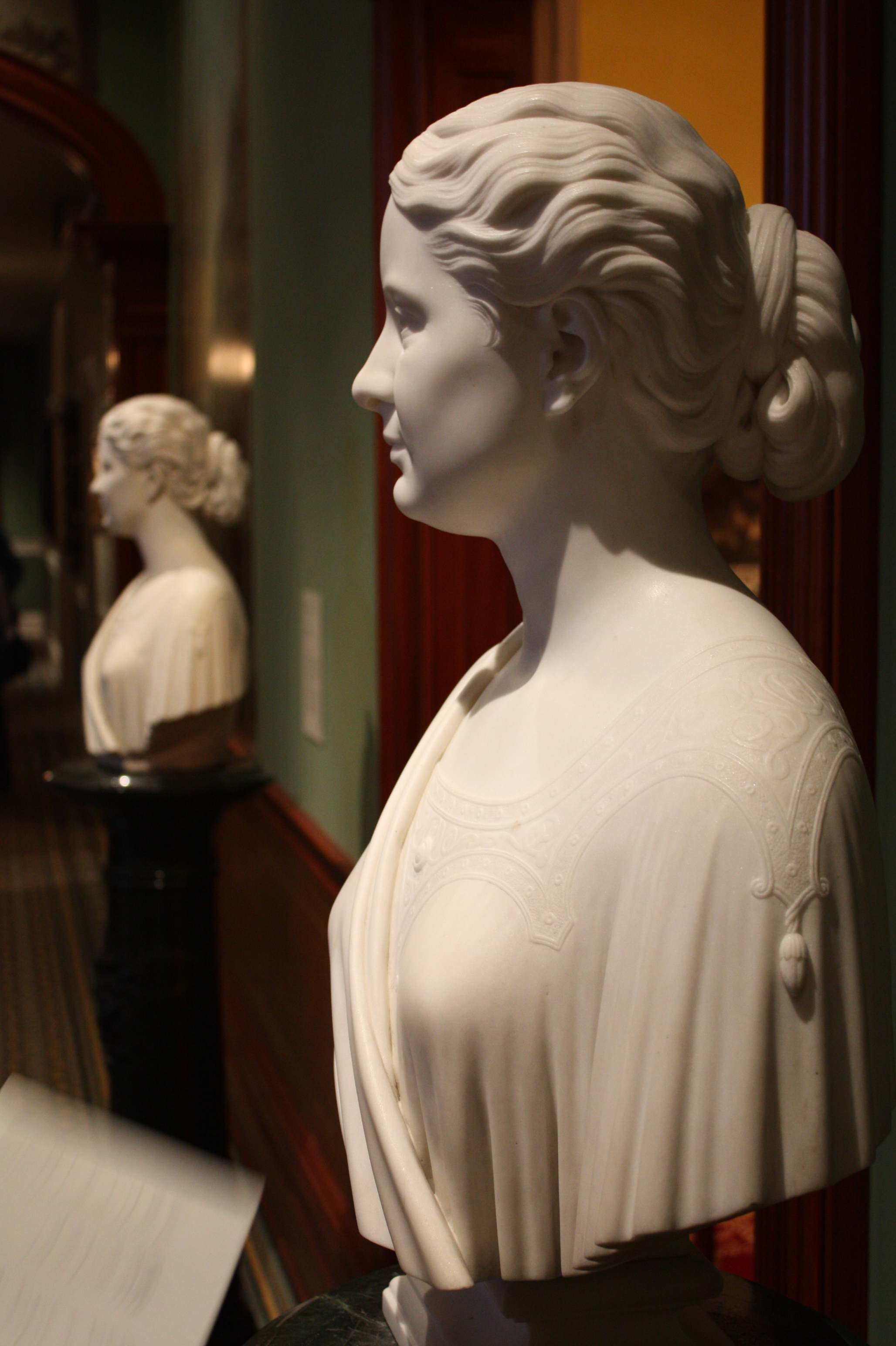 Anna B. Sinton Hiram Powers 1870 Marble, 59.4 x 48.4 x 27.3 cm. Taft Museum of Art, Anna Sinton Taft by Bequest, 1900 1931.372 Wikipedia Loves Art at the Taft Museum of Art This photo of item # 1931.372 at the Taft Museum of Art was contributed under the team name "dave_and_deb" as part of the Wikipedia Loves Art project in February 2009. Taft Museum of Art The original photograph on Flickr was taken by Pez King—please add a comment to the original Flickr page whenever a use has been made on Wikipedia or another project. Project galleries on Flickr: this institution, this team